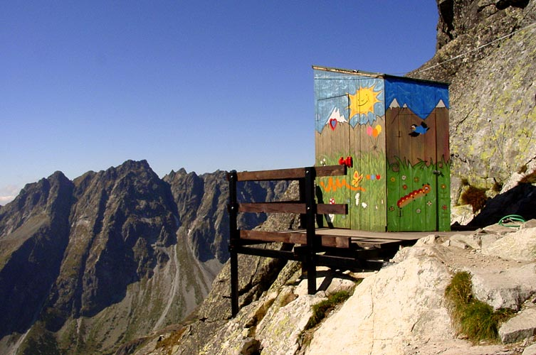 Outhouse near (ca 90 m.) the mountain touristic chalet "Chata pod Rysmi" (2250 m., The Montain of Rysy, Slovakia) with an exquisite view on the Tatra Montains and the Mengusovska Valley.